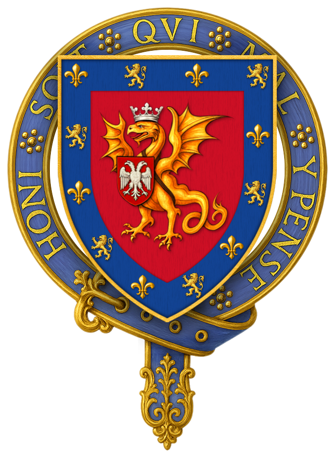 Coat of Arms of attributed to Sir Franke Van Hale, KG, as they appear on his garter stall plate in St. George's chapel -- gules a wyvern with nowed tail or crowned argent having a shield, gules a two-headed eagle displayed argent, about its neck, all within a bordure azure with lions and fleur-de-lis or. However, the actual arms of Sir Frank van Hale, as shown on his seal, were gules a lion rampant or, crowned azure. According to G. F. Belz, author of Memorials of the Order of the Garter, the stall plate was part of an elaborate invention by Edward Hall, the chronicler (d. 1547) who invented a fictitious pedigree wherein Sir Frank van Hale appears as the ancestor of the Halls of Northall, co. Salop. The van Hale plate still in place in the twelfth stall on the Sovereign's side is believed to date from the era of King Henry VIII. “Sir Frank Van Hale, K.G. c. 1359-1375… Gules a wyvern with nowed tail gold crowned silver having a shield gules a two-headed eagle silver about his neck, all within a bordure azure with lions and fleurs-de-lis gold.” ST. JOHN HOPE, W. H., The Stall Plates of the Knights of the Order of the Garter 1348 – 1485: A Series of Ninety Full-Sized Coloured Facsimiles with Descriptive Notes and Historical Introductions, Westminster: Archibald Constable and Company LTD, 1901. “Sir Frank Van Hale… Arms: Gules, a wyvern, wings elevated, crowned Or; pendant from neck an escocheon of the field, thereon an eagle displayed, with two heads, Argent; all within a bordure Azure, charged with six lioncels rampant and as many fleurs-de-lis, alternately, of the second.” BELTZ, George Frederick, Memorials of the Order of the Garter from Its Foundation to the Present Time, London: William Pickering, 1841.